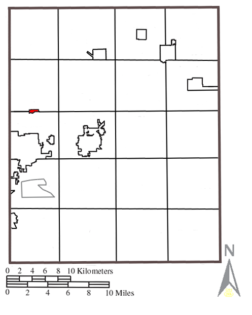 Map of Portage County, Ohio with the village of Sugar Bush Knolls highlighted.